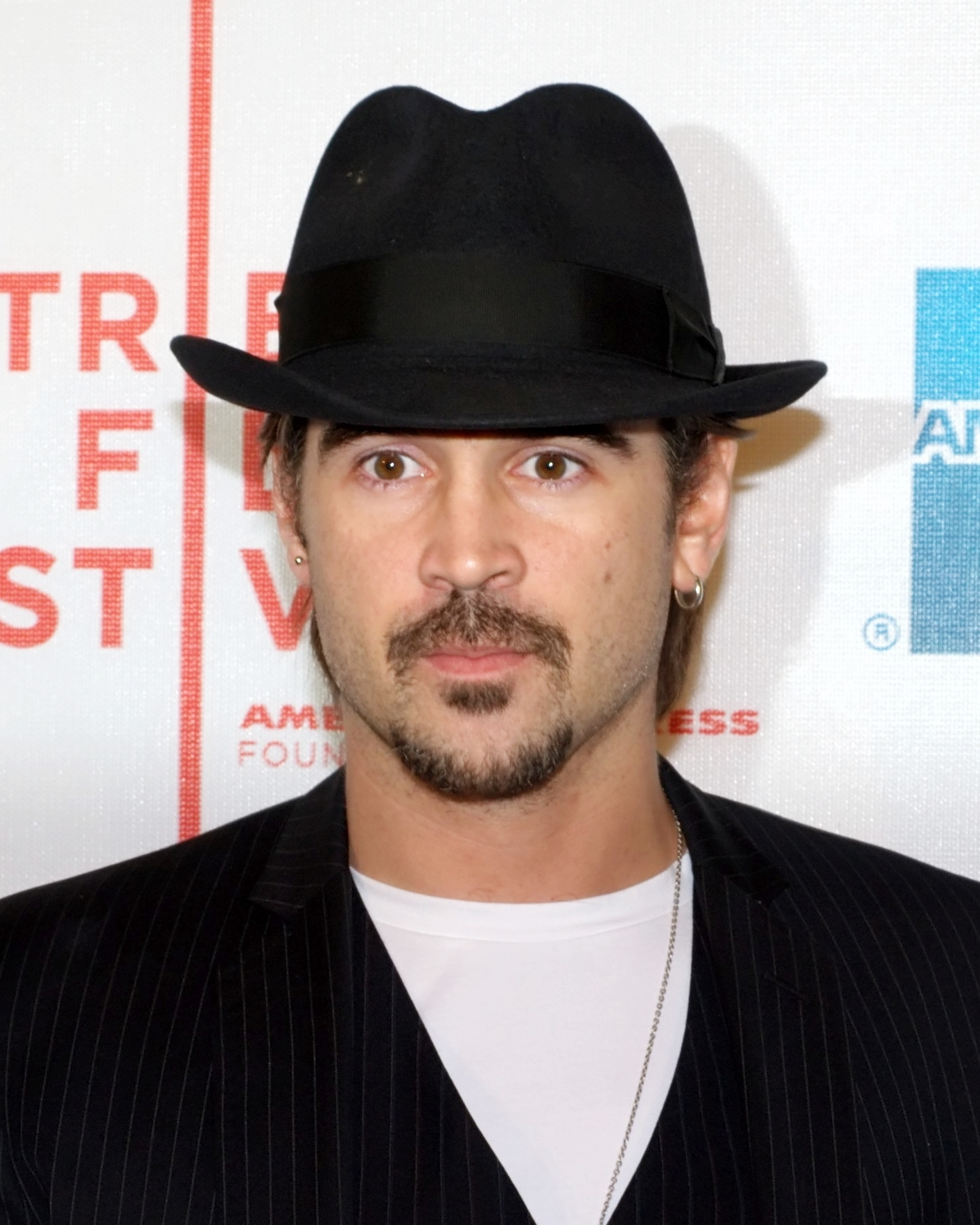 Colin Farrell at the premiere of Ondine at the 2010 Tribeca Film Festival